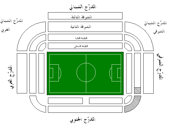 "I created this myself in Microsoft Paint on 20 January 2008, specifically for use in the Old Trafford article. The West stand is better known as The Stretford End."